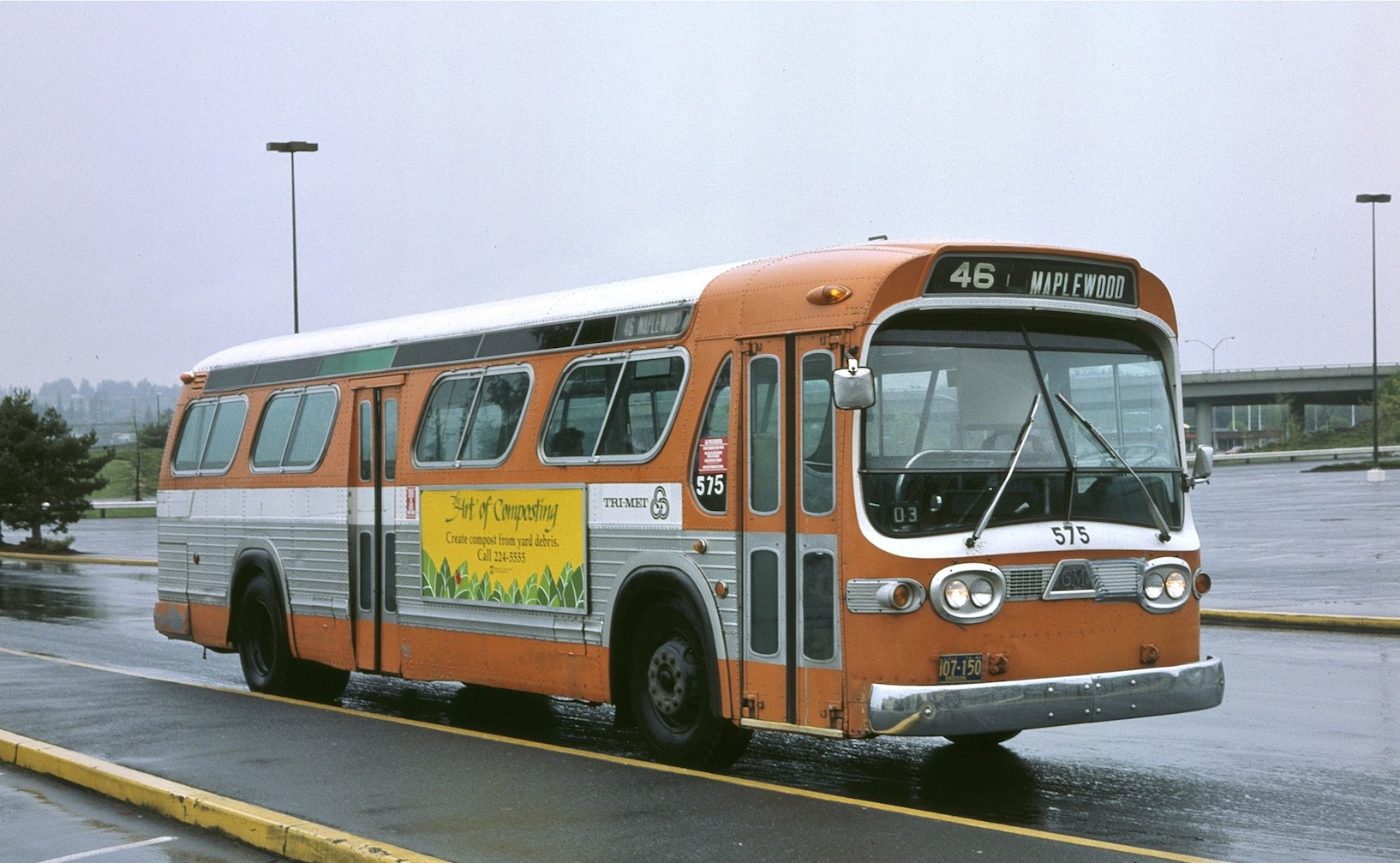 Tri-Met (now TriMet) bus 575, is a 1966-built GM New Look bus (model TDH-4519). It was previously Rose City Transit bus 575 and was the last new bus ever purchased by that private company, which was replaced by Tri-Met in 1969. It is pictured in service on former route 46-Maplewood (discontinued in 1986), laying over at Washington Square (old bus stop, replaced by new transit center in 1994). The last buses of this type, which were the last ex-Rose City Transit buses in Tri-Met's fleet, were retired in September 1985.